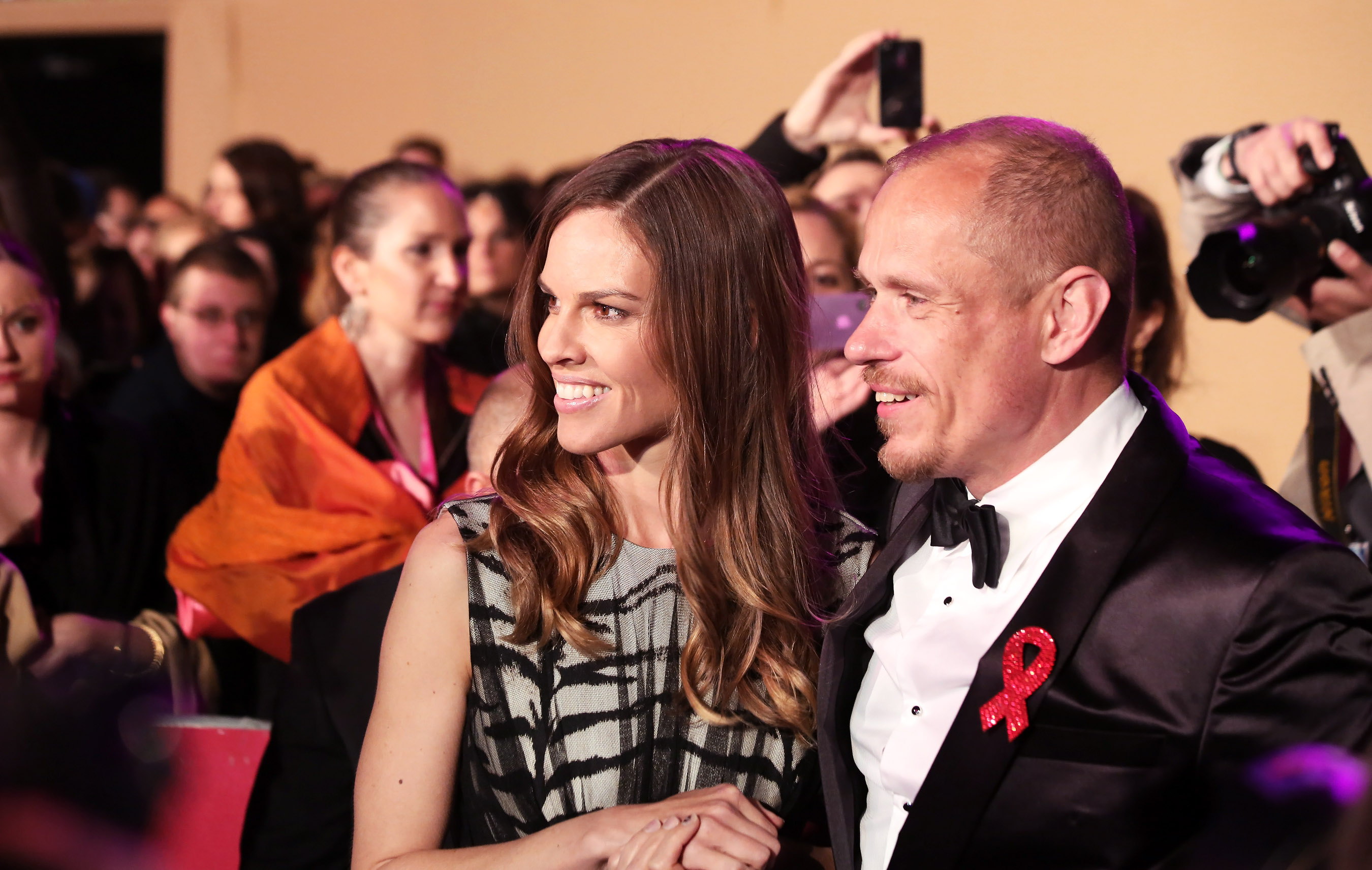 Hilary Swank and Gery Keszler on the 'magenta carpet' at Life Ball 2013 at the square in front of the city hall of Vienna, Vienna, Austria.